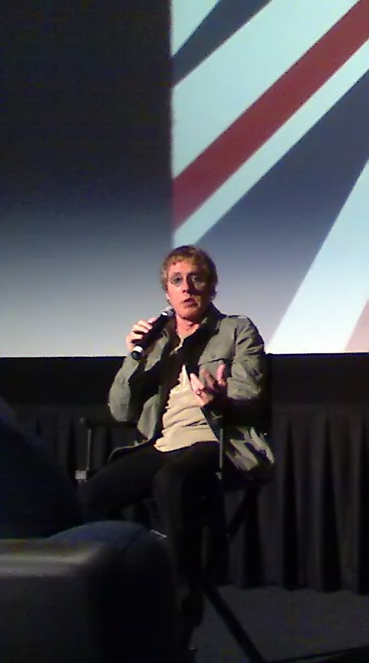 Roger Daltrey during a Q&A prior to a screening of "The Who Live At Kilburn 1977" at the ArcLight. Sherman Oaks, California